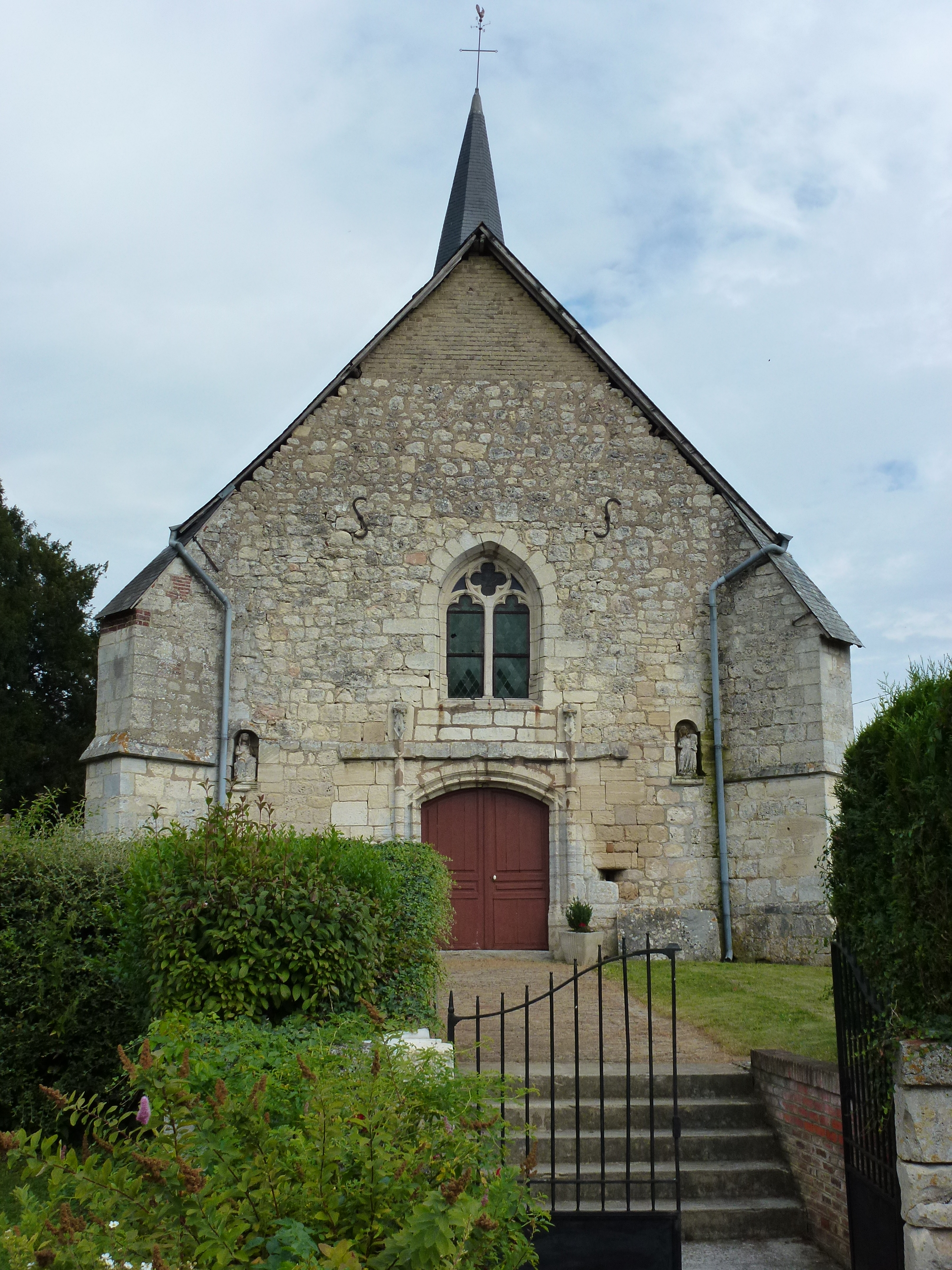 Draize (Ardenens) Église Sainte-Anne, façade